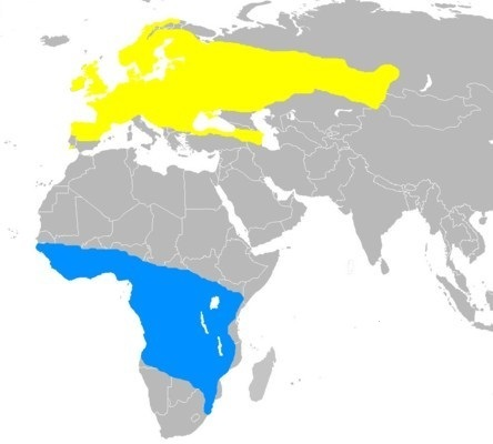 Range map of Sylvia borin, based on Baker, Kevin (1997) Warblers of Europe, Asia and North Africa (Helm Identification Guides), London: Helm, p. 102 ISBN: 0-7136-3971-7. Simms, Eric (1985) British Warblers (New Naturalist Series), London: Collins, p. 59 ISBN: 0-00-219810-X. Base map is File:BlankMap-World-large.png